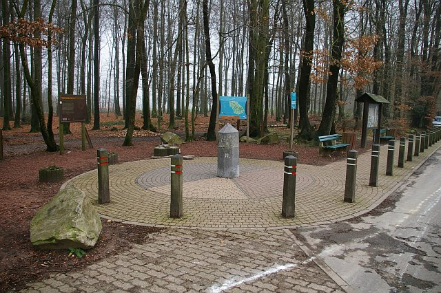 Drielandenpunt(NL)/Trois Bornes(BE)/Dreiländereck(D), Monumnet at three countries boarder, between Netherlands and Belgium and Germany. near Netherlands town Vaals